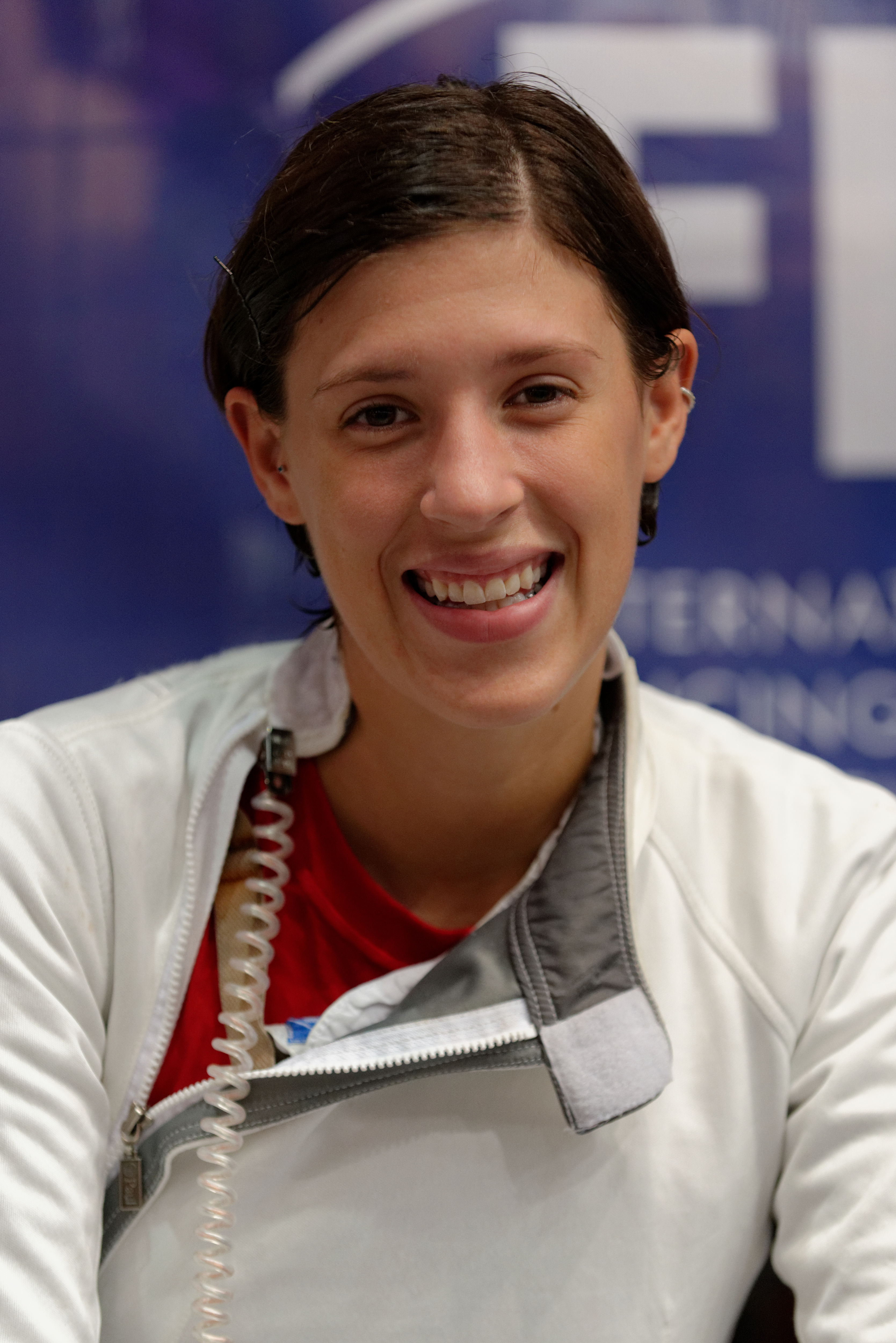 Kelley Hurley during the women's épée event at the 2013 World Fencing Championships 2013 at Syma Hall in Budapest, 8 August 2013.